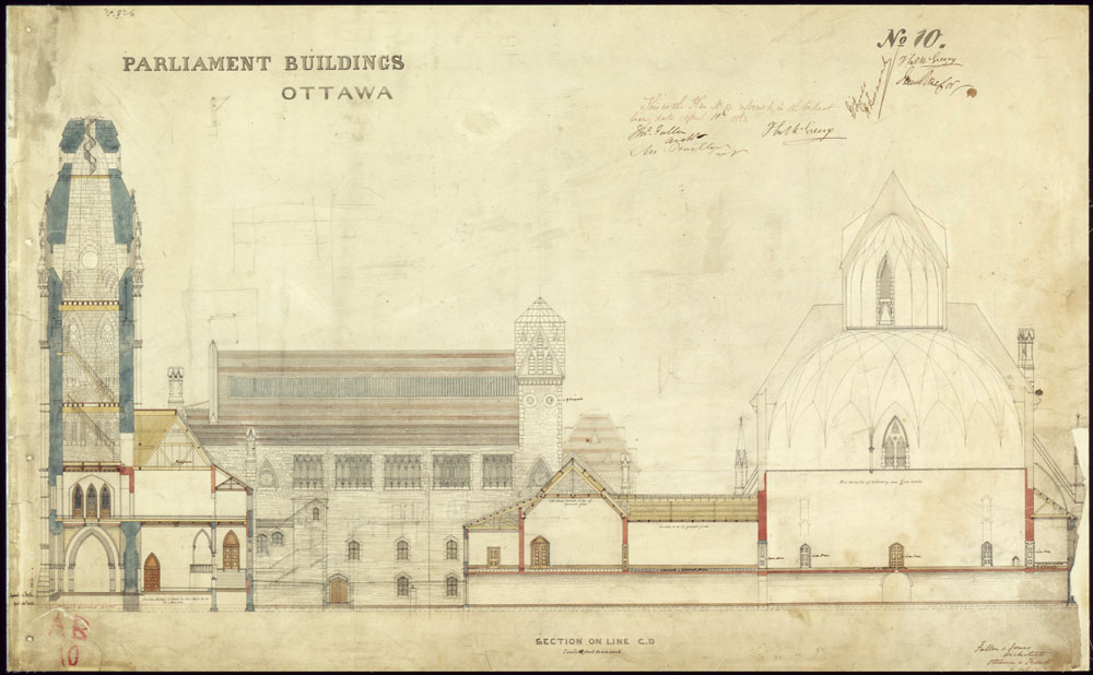 Drafted section of the Centre Block of Parliament Hill, Ottawa, Ontario